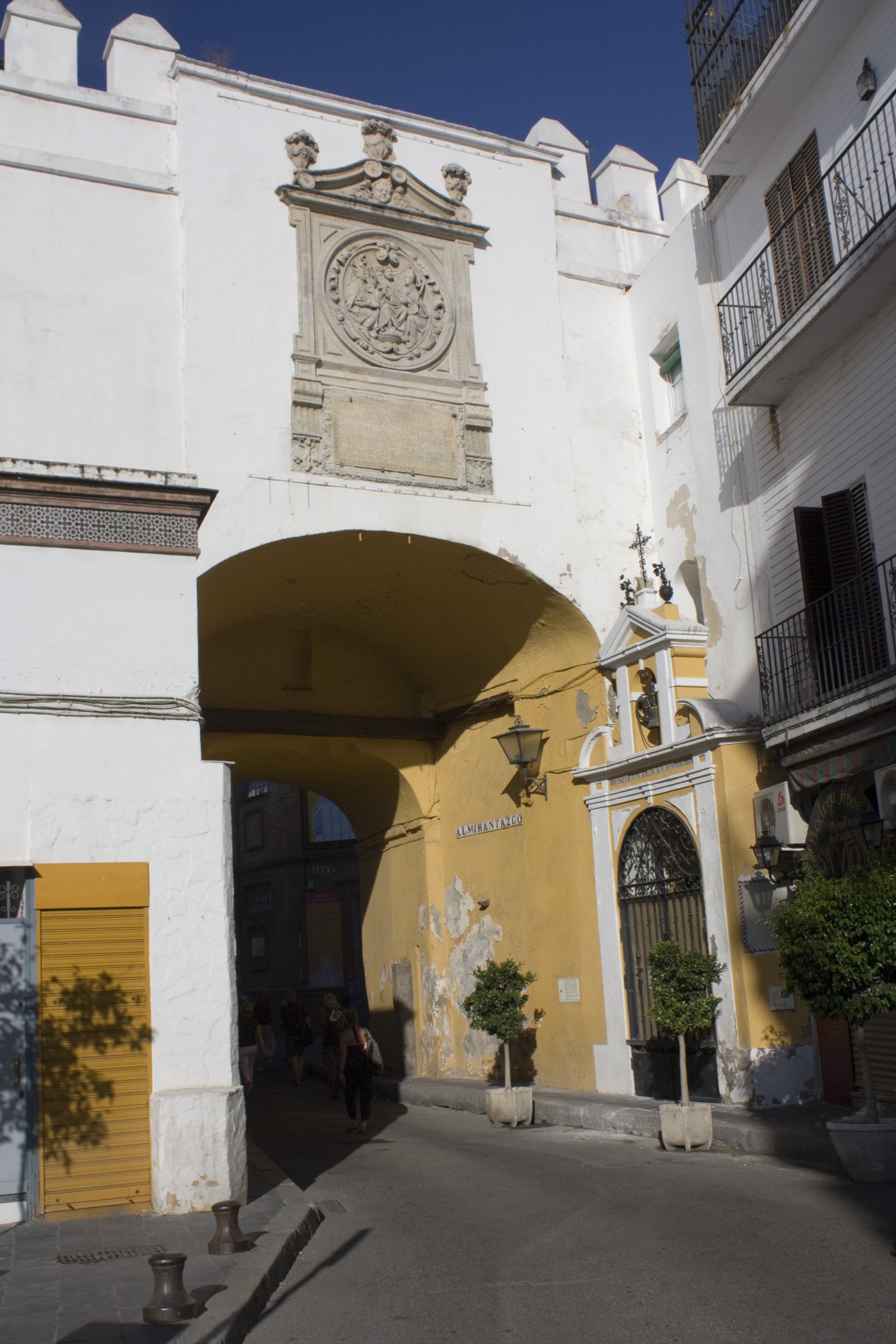 The doorway of el Almirantazgo (Admiralty house), pierced in the old city walls, provides access to the Plaza del Calbildo